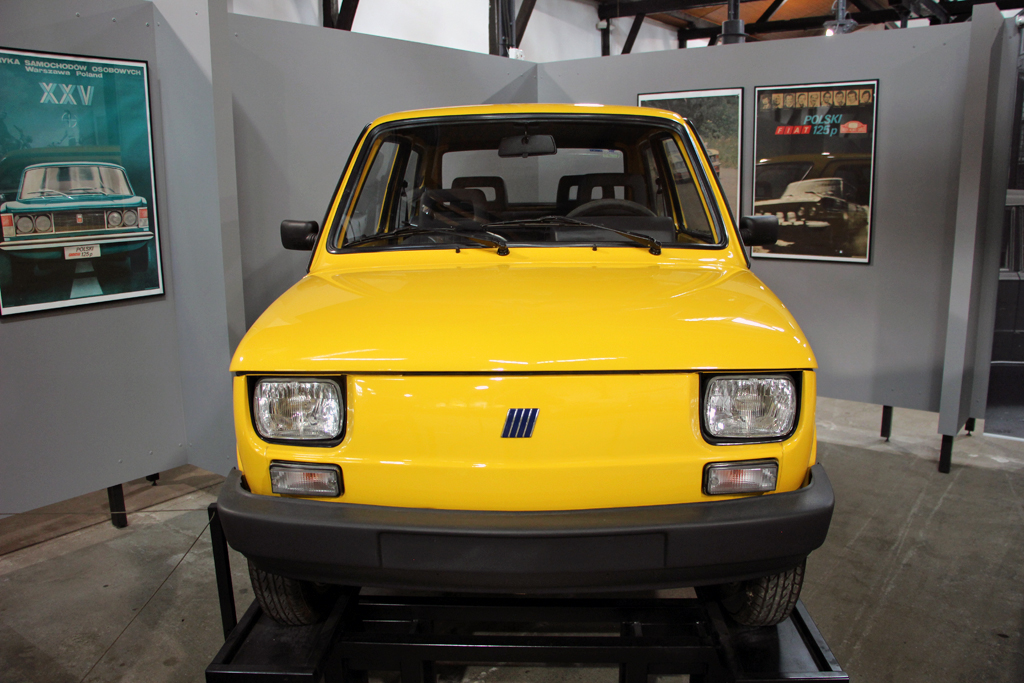 This photo was taken during Automotive Wikiexpedition 2016 set up by Wikimedia Polska Association.You can see all photographs in category Wikiekspedycja motoryzacyjna 2016. English | polski | +/−